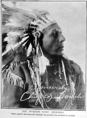 Newspaper photograph of Chief Deskaheh (Levi General)